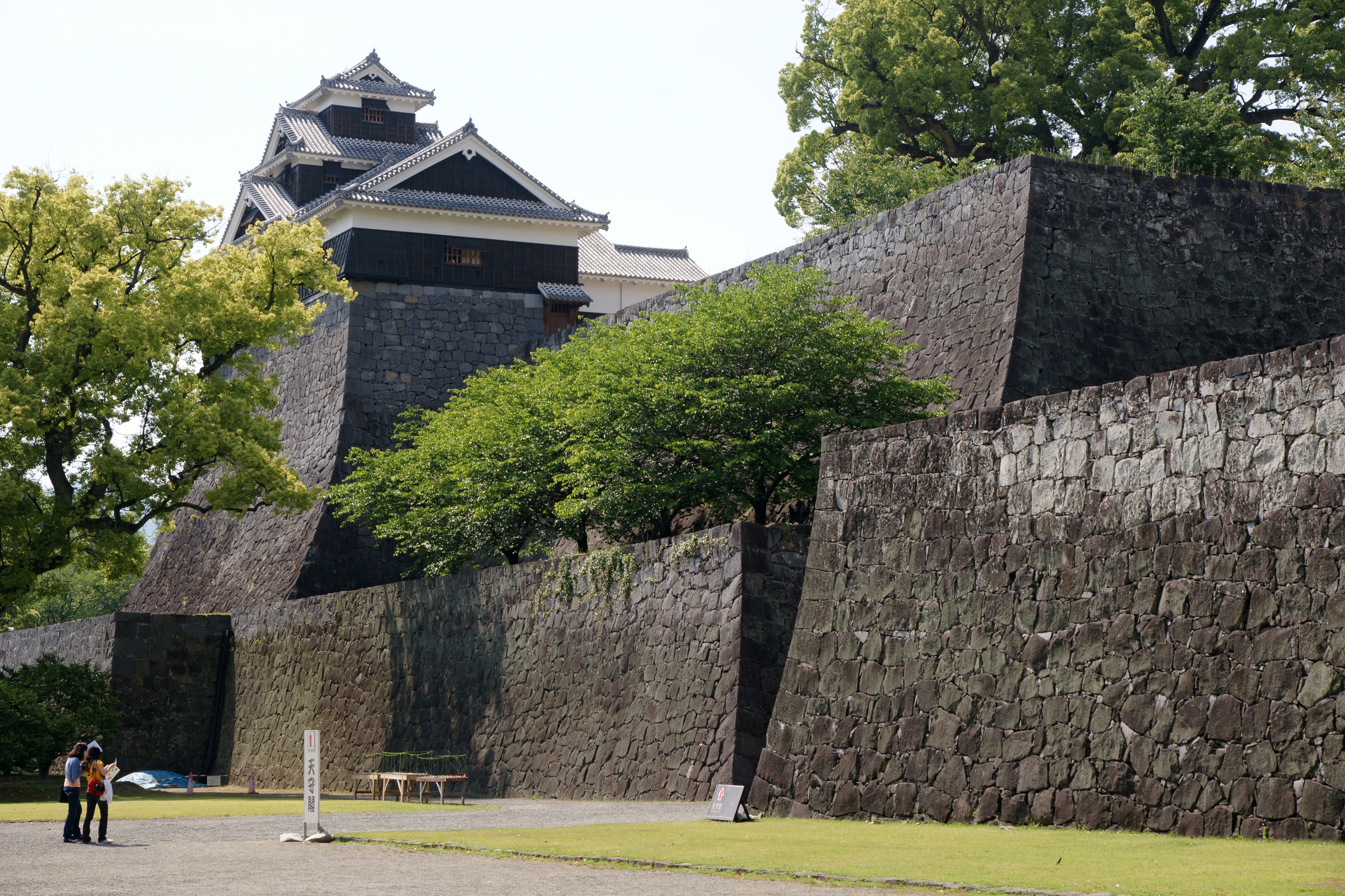 Kumamoto Castle, Kumamoto, Kumamoto prefecture, Japan